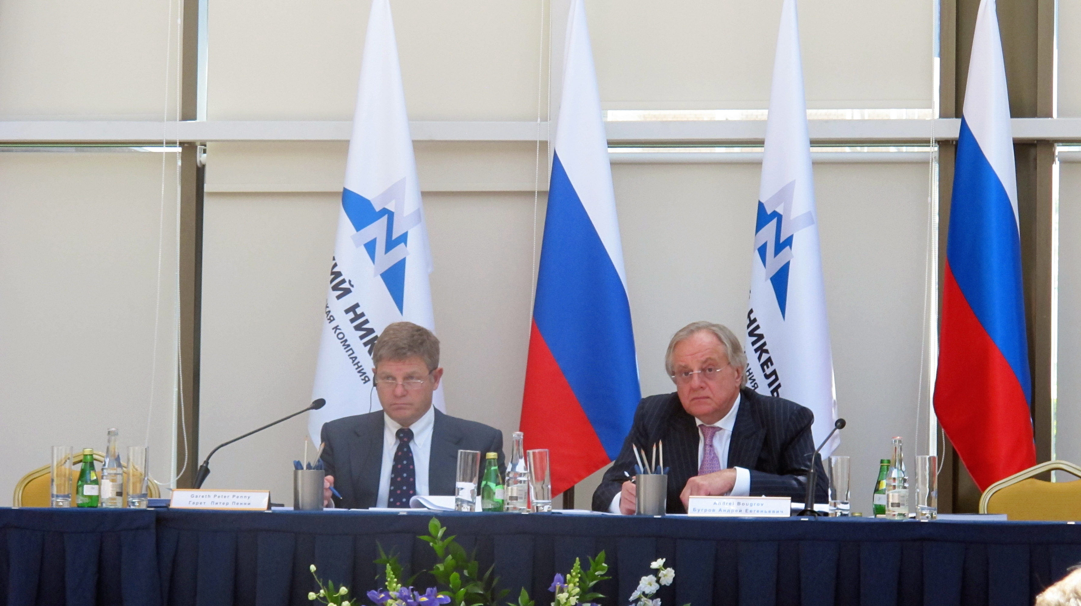 Norilsk Nickel’s Annual General Meeting of Shareholders 2016-06-10